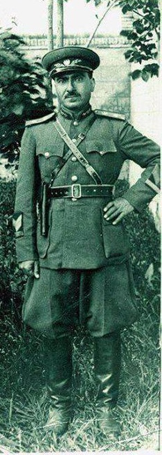 Mustafa Barzani (Kurdish: مستەفا بارزانی Mistefa Barzanî) (March 14, 1903 – March 1, 1979) also known as Mullah Mustafa was a Kurdish nationalist leader, and the most prominent political figure in modern Kurdish politics.